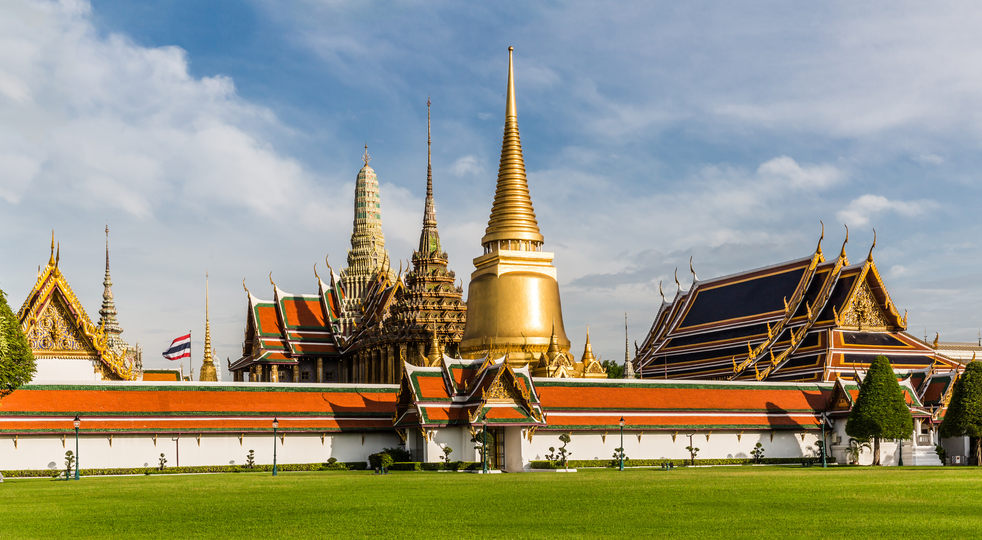 Wat Phra Kaew, viewed from the Outer Court of the Grand Palace, just inside the Wisetchaisi Gate. Also known as the Temple of the Emerald Buddha, it is Thailand's primary Buddhist temple. Located within the grounds of the Grand Palace, Wat Phra Kaew is technically a royal chapel, as unlike regular temples it does not include living quarters for Buddhist monks.Edit by me, User:TSP, of File:Wat_Phra_Kaew_by_Ninara_(33271955941).jpg as permitted by the CC-BY licence of that file.